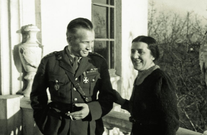 Colonel Leopold Okulicki and Bronisława Wysłouchowa ps. Bronka, his liaison officer from the time of the underground movement in Lwow. Buzułuk 1941. On the terrace of the Polish Army Command in the USSR.